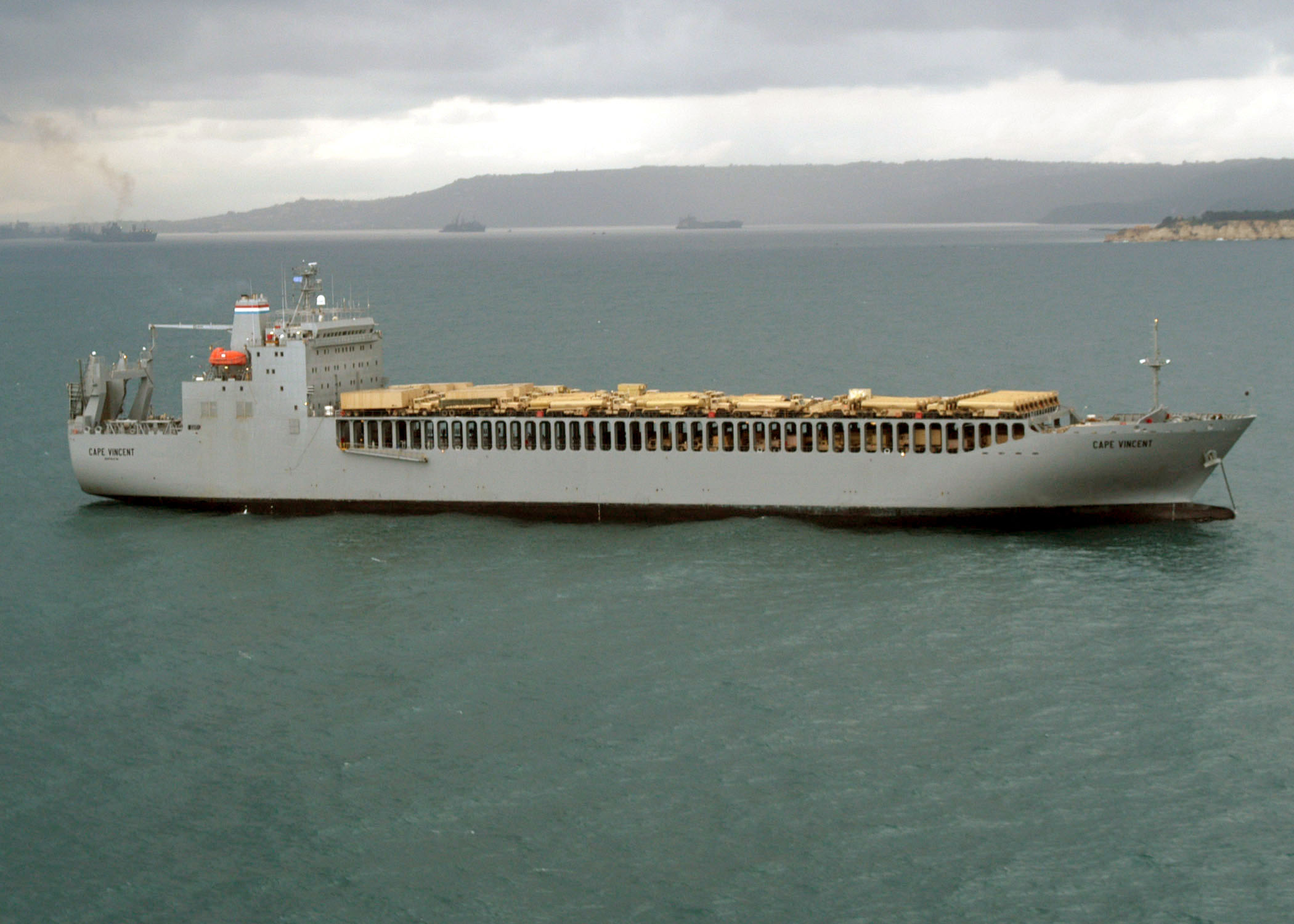 Souda Bay, Crete (Mar. 2, 2003) -- The Military Sealift Command (MSC) Roll-on/Roll-off Ready Reserve Force (RRF) vehicle transport ship Cape Vincent (T-AKR 9666) at anchor in the harbor off Souda Bay, Crete, Greece. The decks of the ship are loaded with heavy military equipment to supply troops mobilizing in support of the continuing war on terrorism. U.S. Navy photo by Photographer's Mate 2nd Class Michelle L. McCandless. (RELEASED)